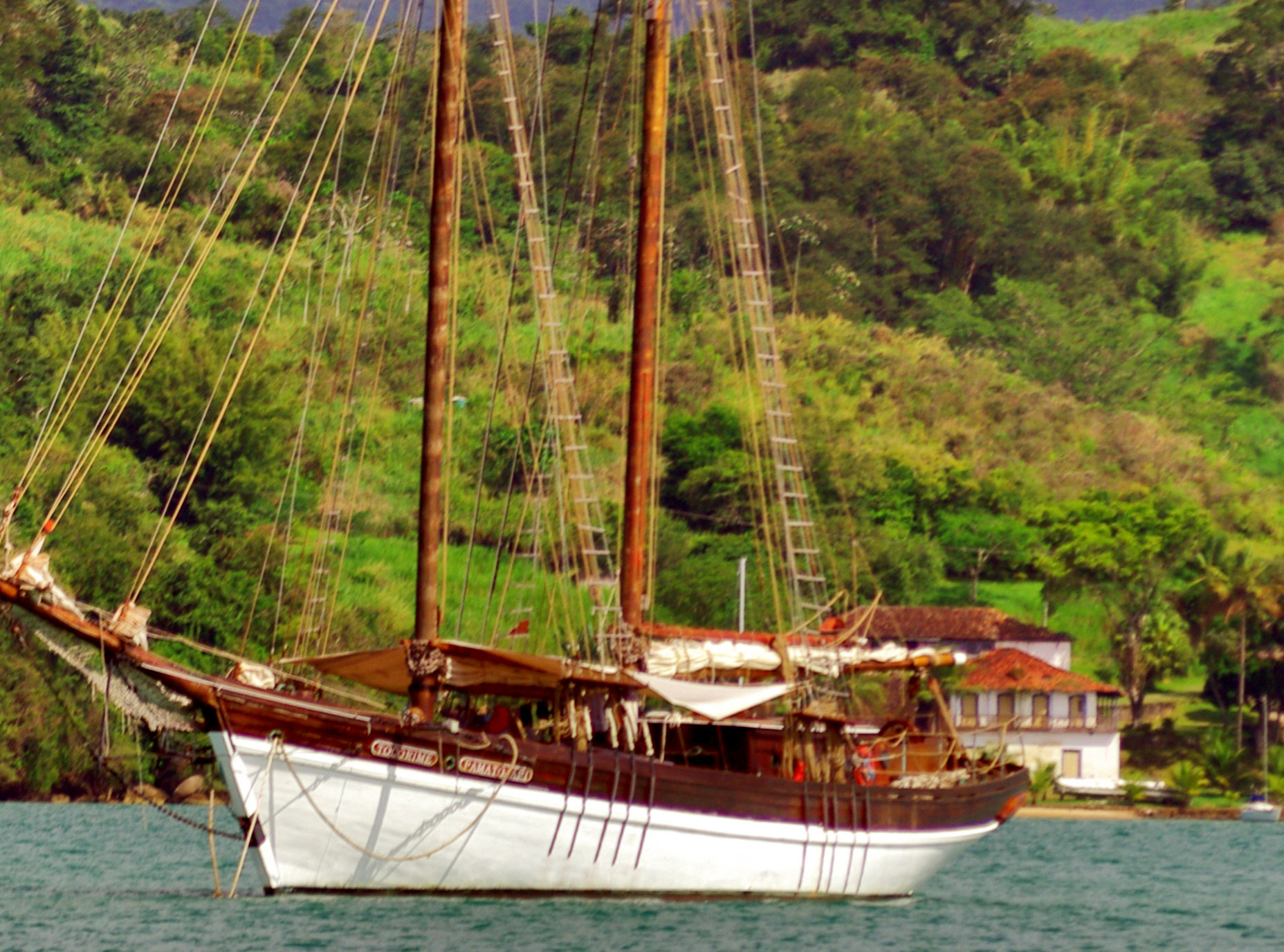 Tocorimé Pamatojari in Paraty (RJ / Brazil) in front of the Fazenda Boa Vista